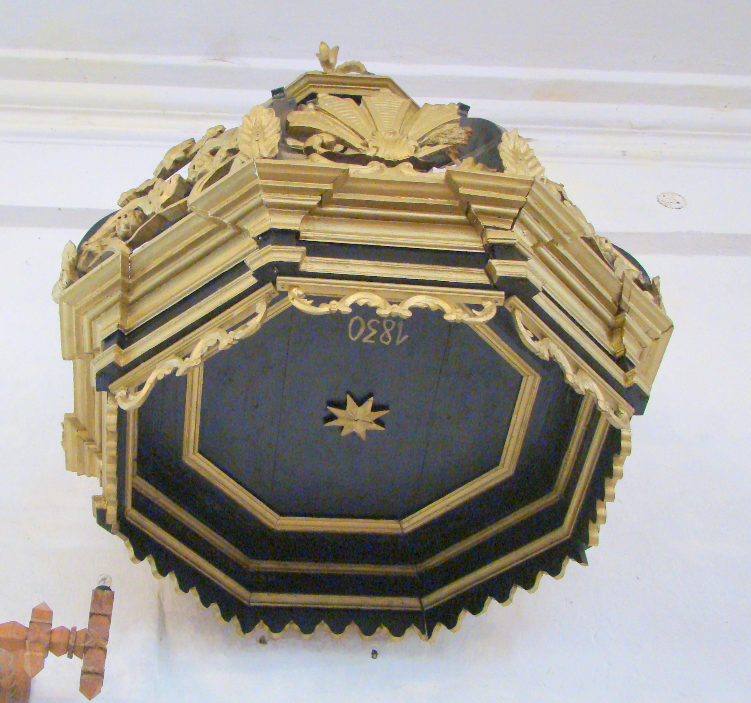 The canopy over the pulpit of the unitarian church in Roua